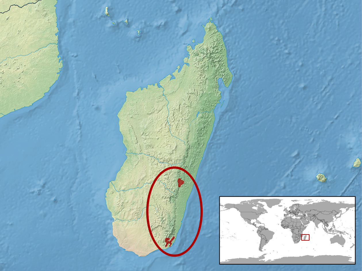 geographic distribution of Furcifer balteatus (Native: Madagascar)